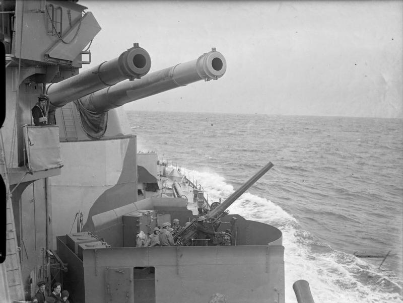 The Royal Navy during the Second World War The monitor HMS EREBUS's 15 inch guns. One of the ship's 4 inch anti aircraft guns can be seen below them.